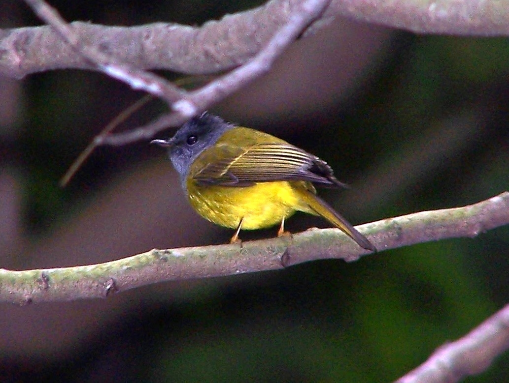 Grey-headed Canary-Flycatcher (Culicicapa ceylonensis calochrysea) in Hong Kong Park